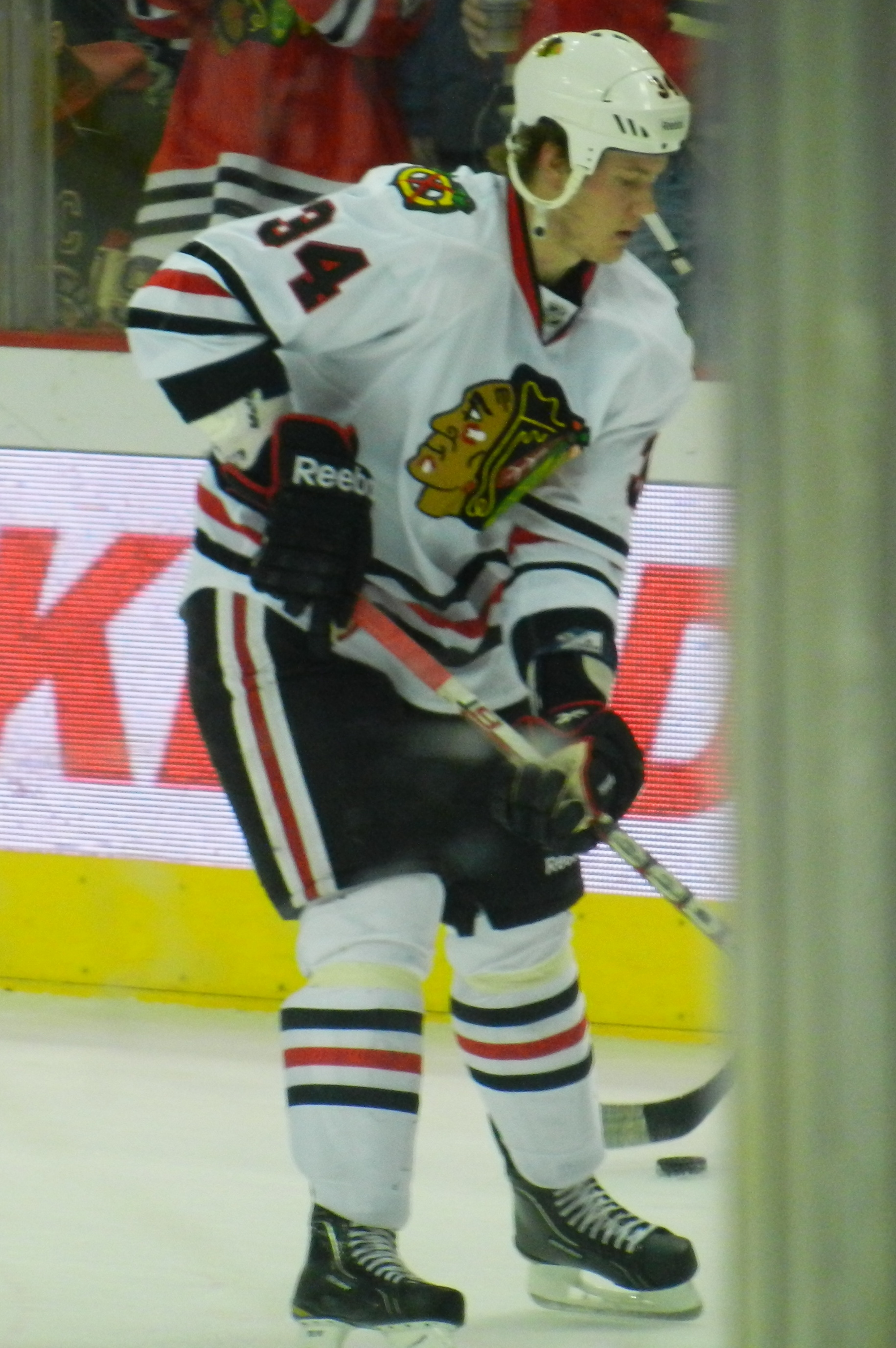 Dylan Olsen playing for the Chicago Blackhawks during the 2011-12 NHL season